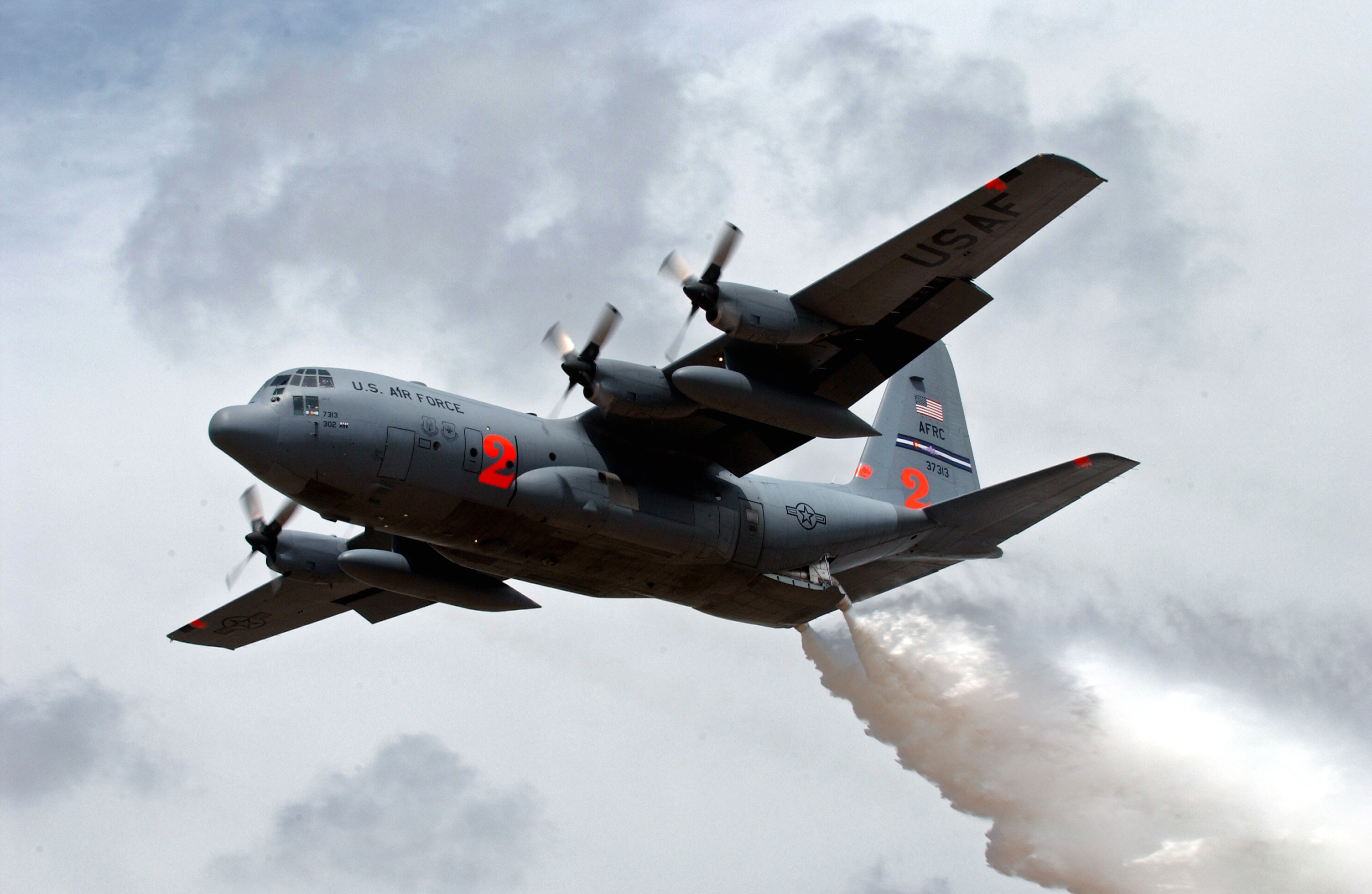 A C-130 Hercules from the 302nd Air Wing, Peterson Air Force Base, Colorado, makes a water drop 2007-05-02, over New Mexico during annual Modular Airborne Fire Fighting System (MAFFS) training. Air National Guard and Air Force Reserve C-130 aircrews are training with MAFFS at the U.S. Forest Service's Albuquerque Air Tanker Base in New Mexico. aircraft = Lockheed C-130 Hercules aircraftid = aircraftop = 302nd Airlift Wing, United States Air Force Reserve aircraftact = Aerial firefighting location = New Mexico, United States